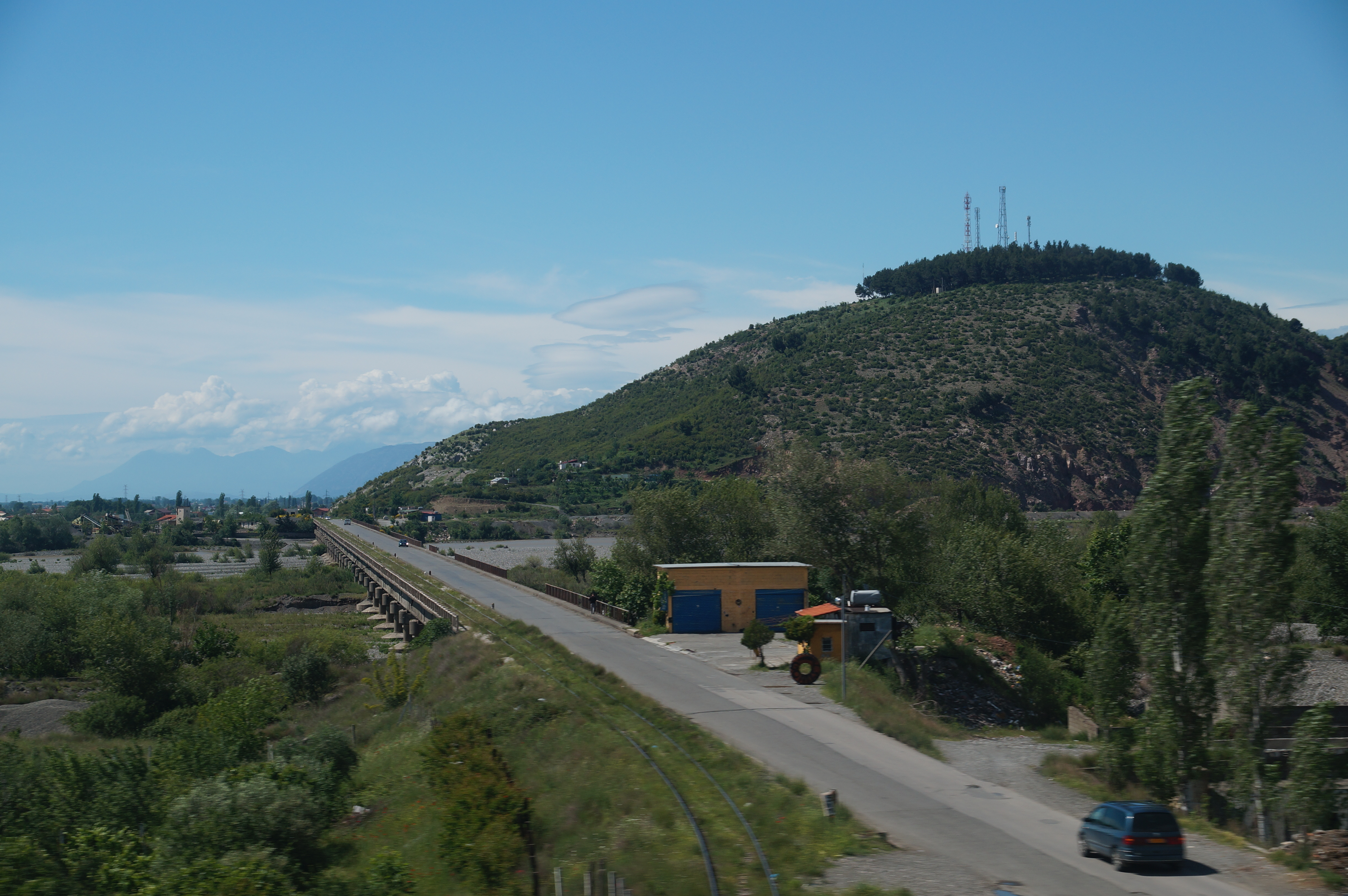 The railway and road bridge over the River Mat in Milot, Albania